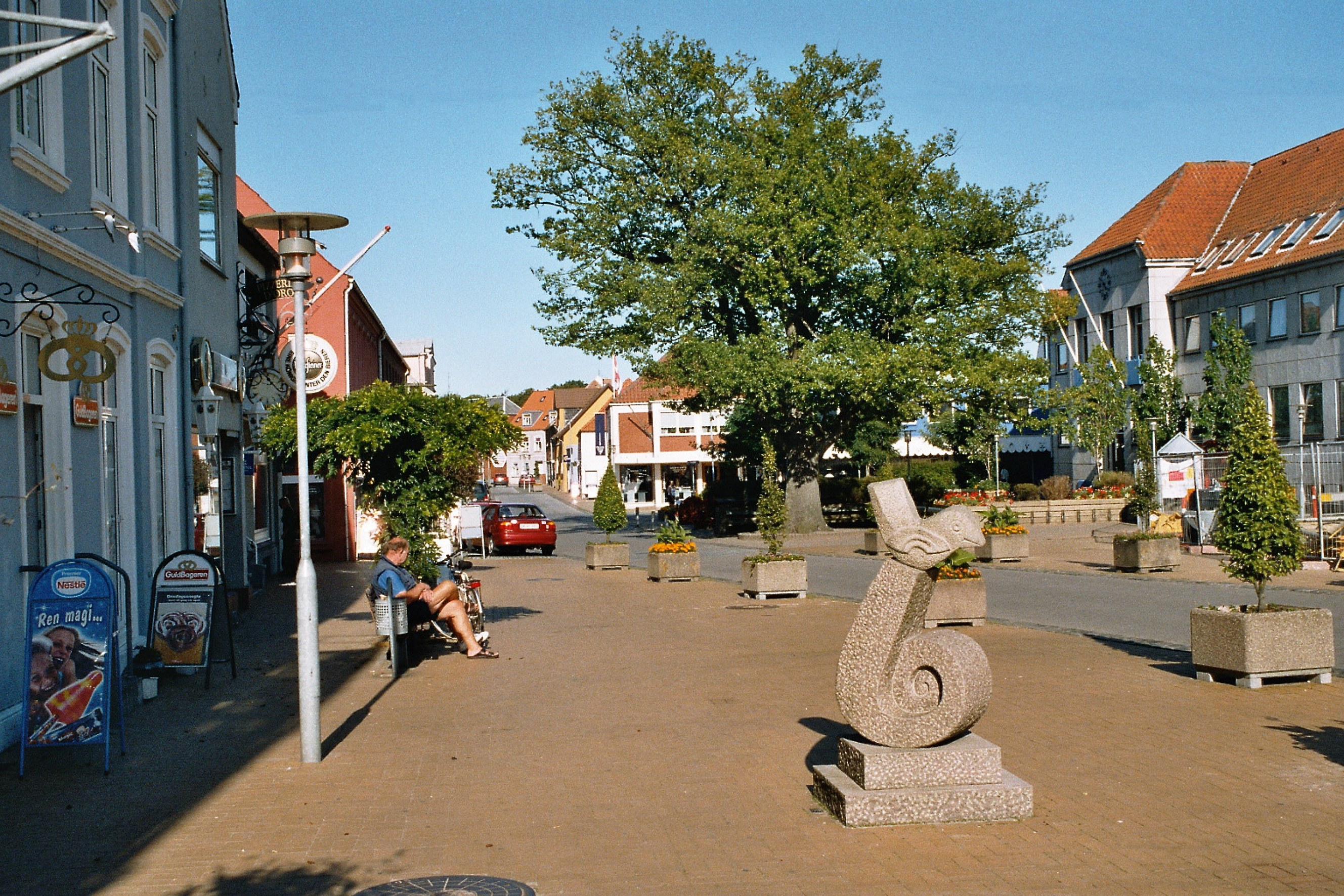 Gråsten (Sønderborg Kommune), the town square